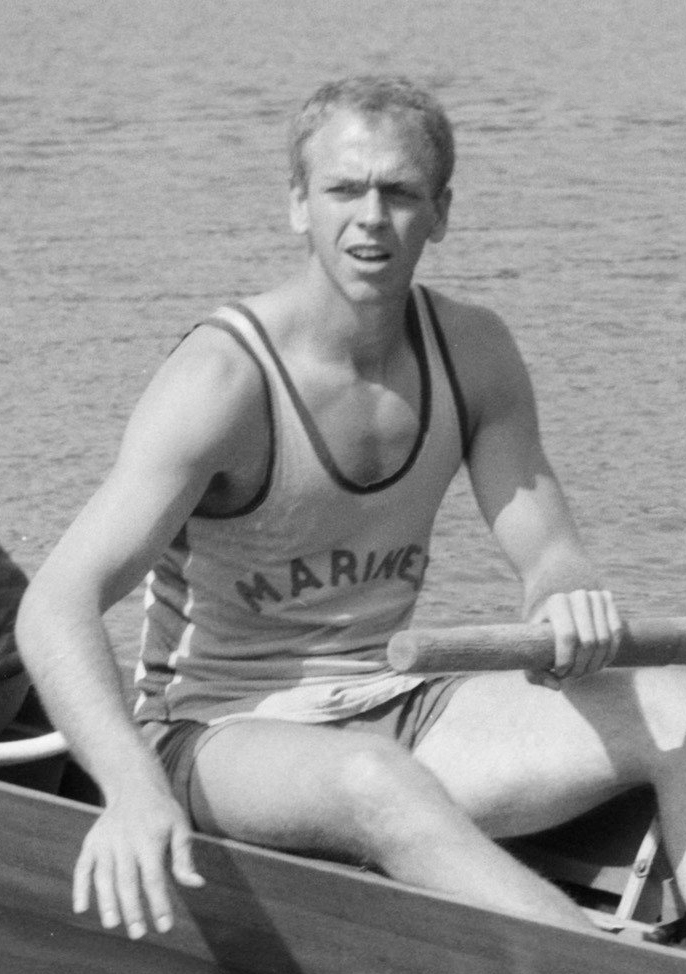 Training Europese roeikampioenschappen, Amerikaanse twee met stuur